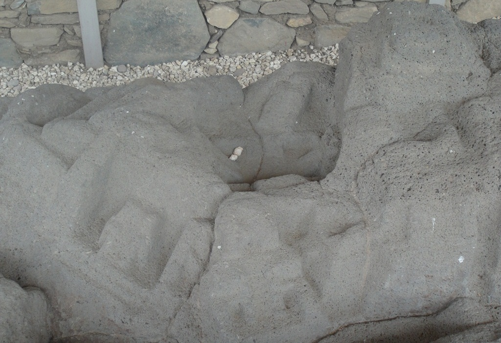 San Miguel Ixtapan, Model detail